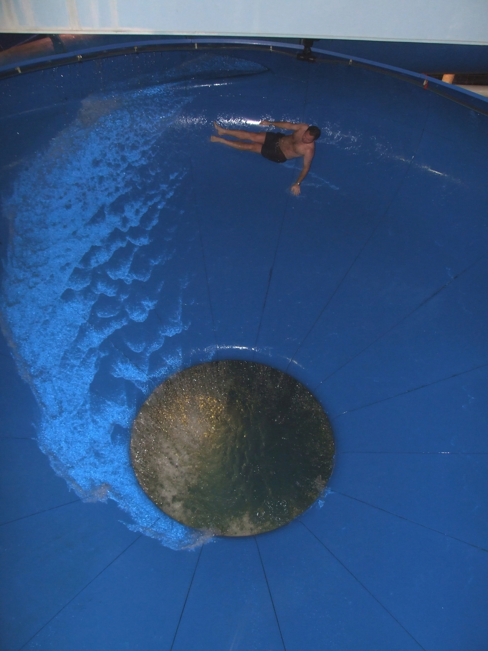 Aquapark Liberc - water slide Tornado